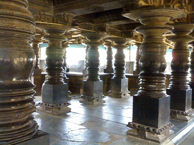 Kundgol Shambhulinga_temple 15 km from Hubli Author and Source : Manjunath Doddamani, Gajendragad, Karnataka (North), India